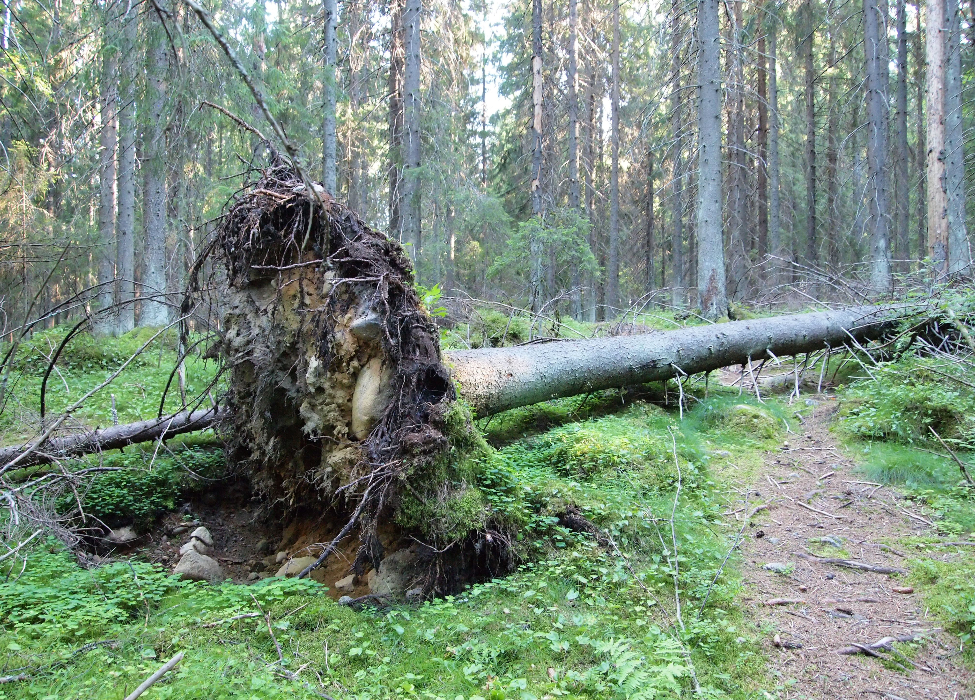 Fallen tree in a forest, Jyväskylä. This photograph was taken with an Olympus E-PL1